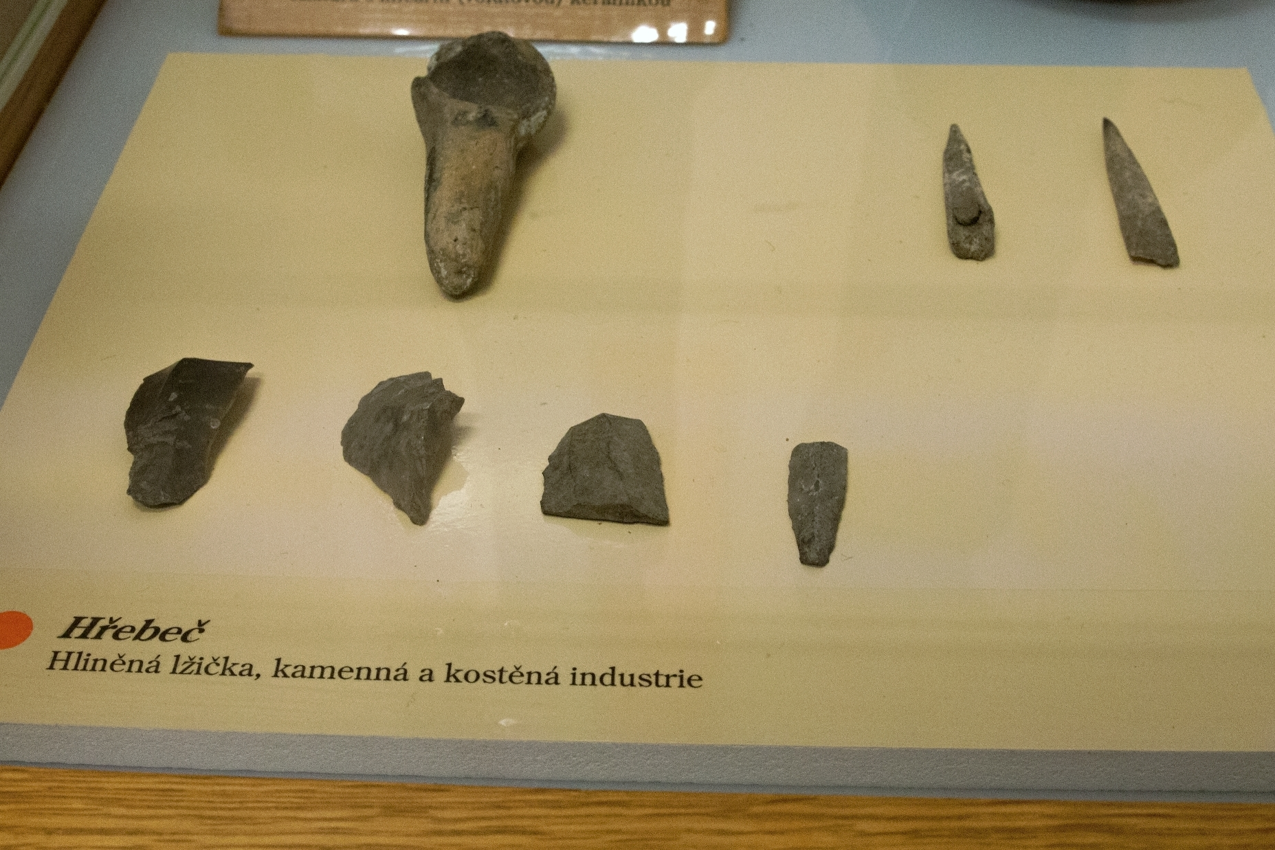 Clay spoon, stone and bone tools. Neolithic. Found in Hřebeč. The Sládeček Museum of Local History in Kladno.